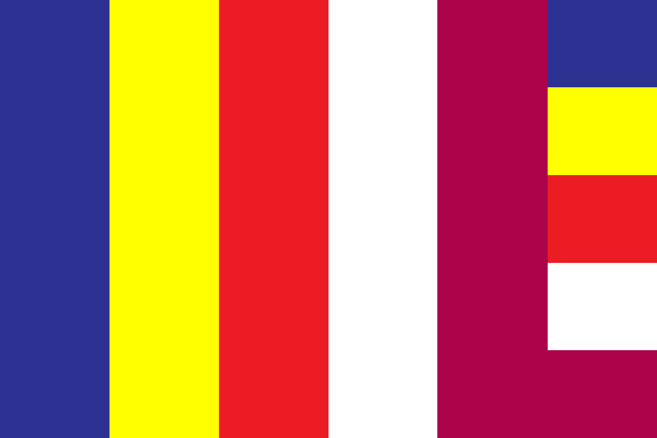 Buddhist flag used by DKBA-5.